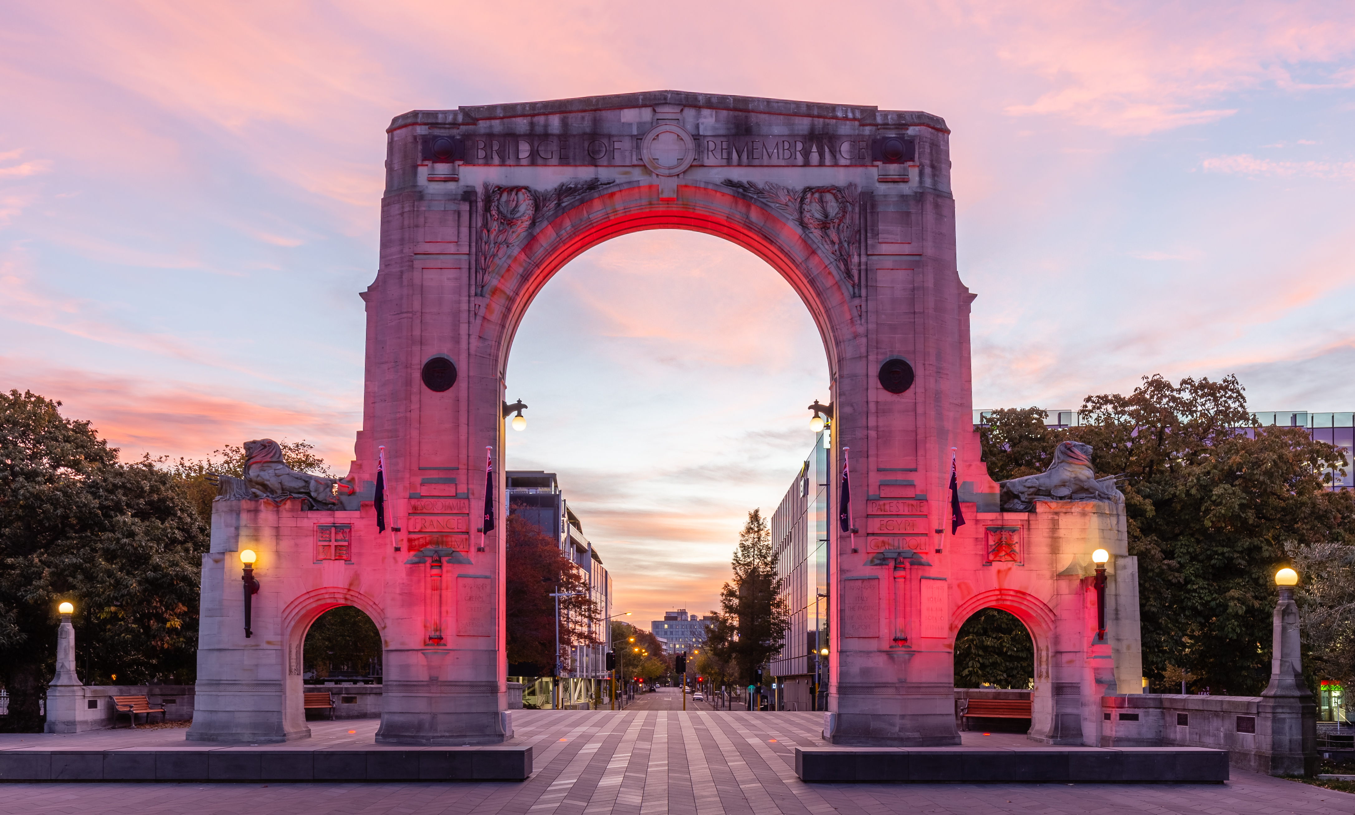 Bridge of Remembrance during the sunset, Christchurch, New Zealand